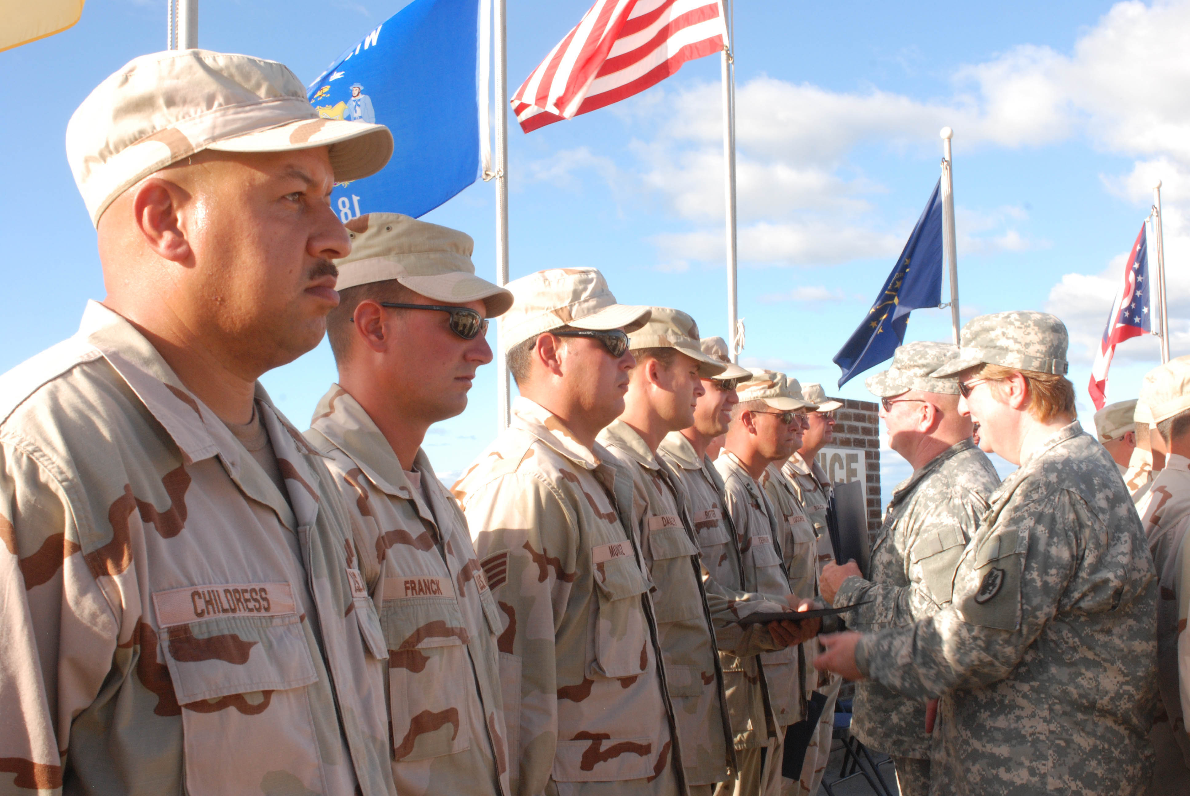 Army Col. Wendy Kelly and Army Sgt. 1st Class Domini McDonald present members of the 474th with Certificates of Appreciation for their hard work while constructing the Expeditionary Legal Complex Feb. 2, 2008. The complex includes a state of the art courtroom designed to facilitate military commissions. (JTF Guantanamo photo by Army Spc. Shanita Simmons)